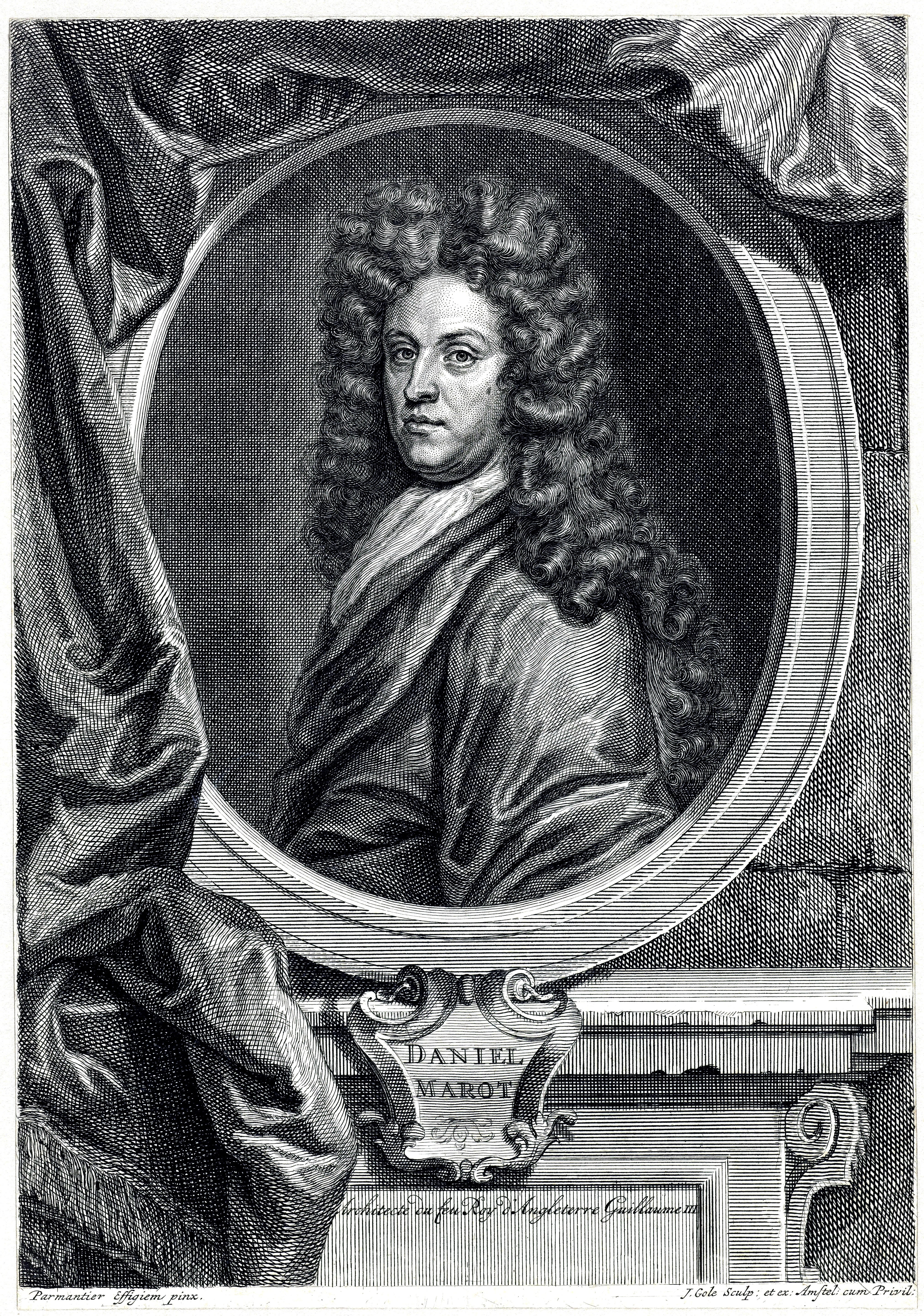 Daniël Marot (1661-1752), architect, furniture designer, garden designer and engraver.